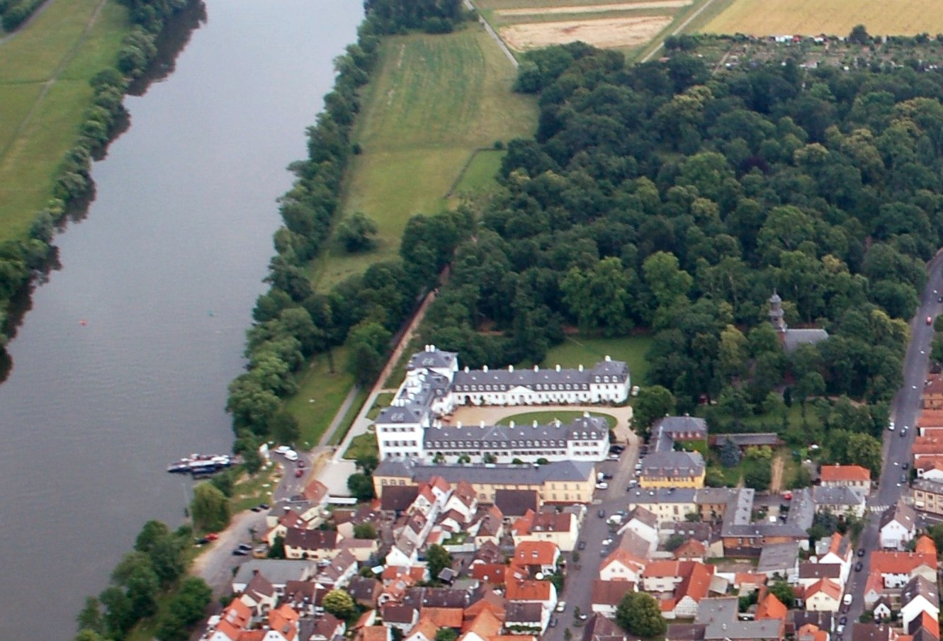 Aerial photograph of Rumpenheim, Hessen, Germany